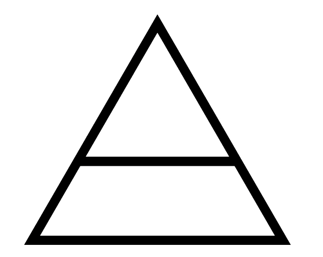 30 seconds to mars' triad